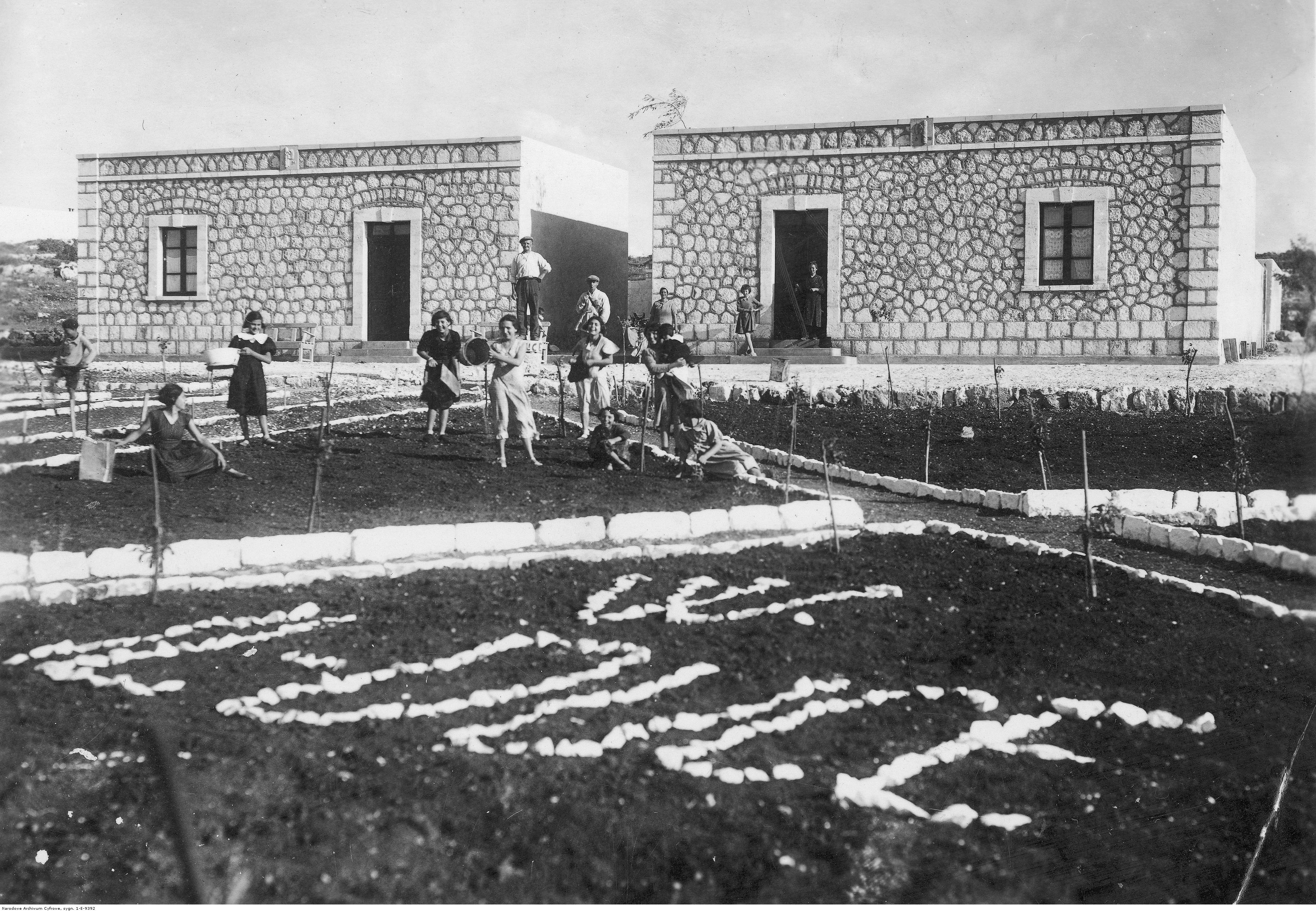 Houses of Italian Colonists in Libya with a decoration writing "W il Duce" on the grass.